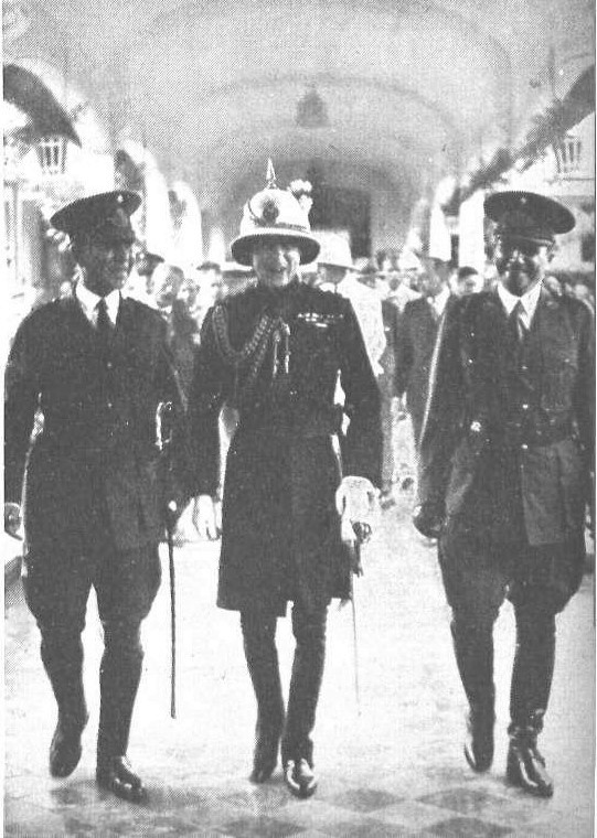 Francisco Reynolds with the Prince of Wales.